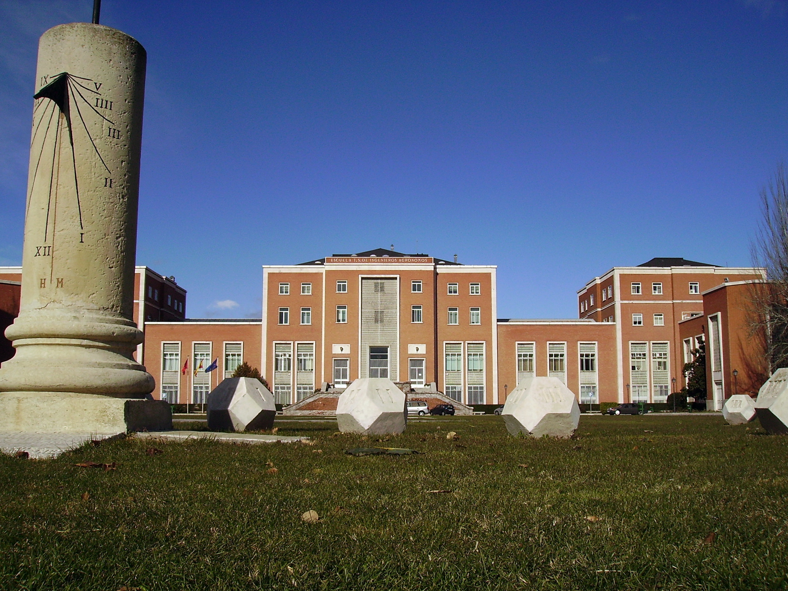 Cdad. Universitaria, Madrid, Spain